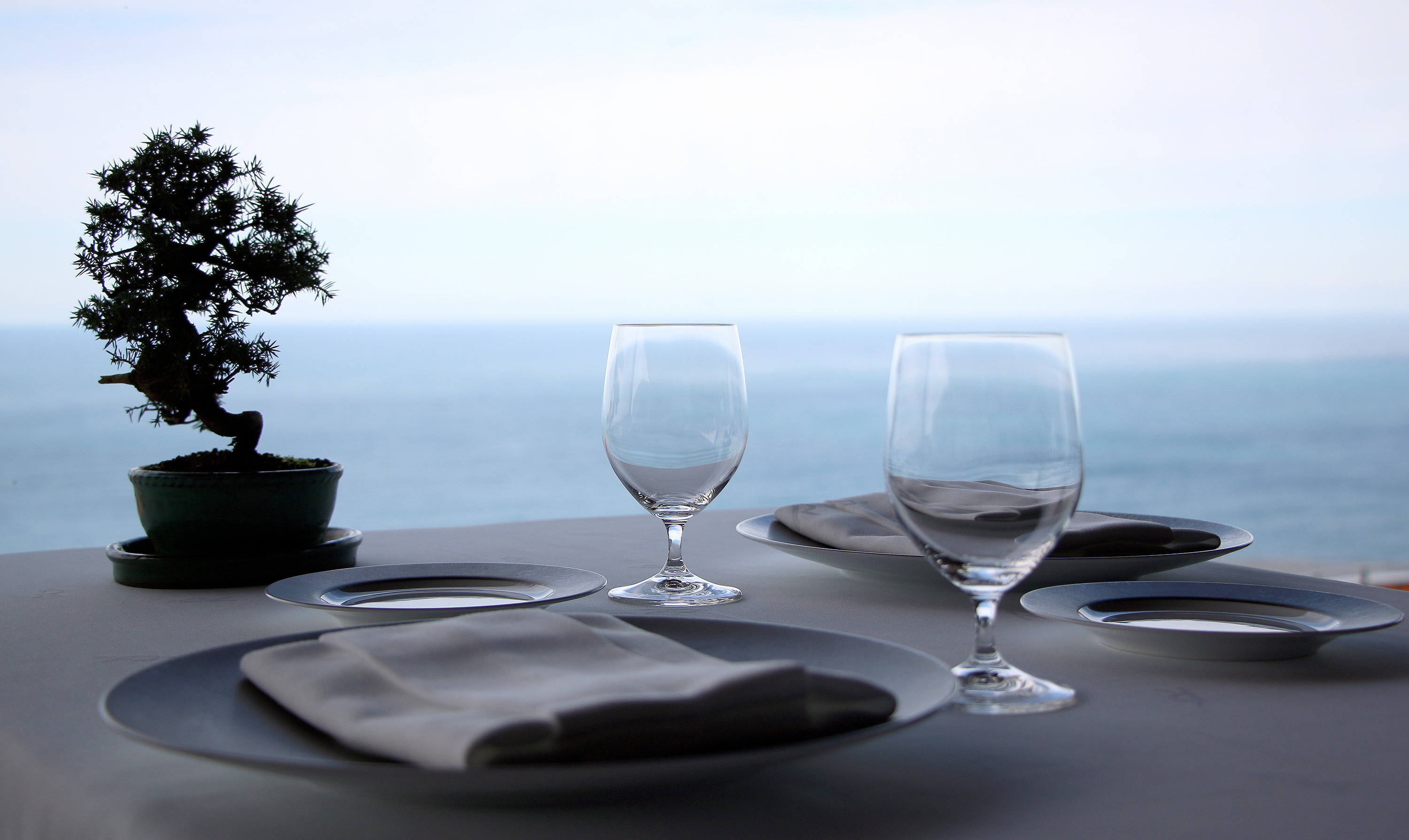 Viwe of the Cantabric sea from the Akelarre restaurant